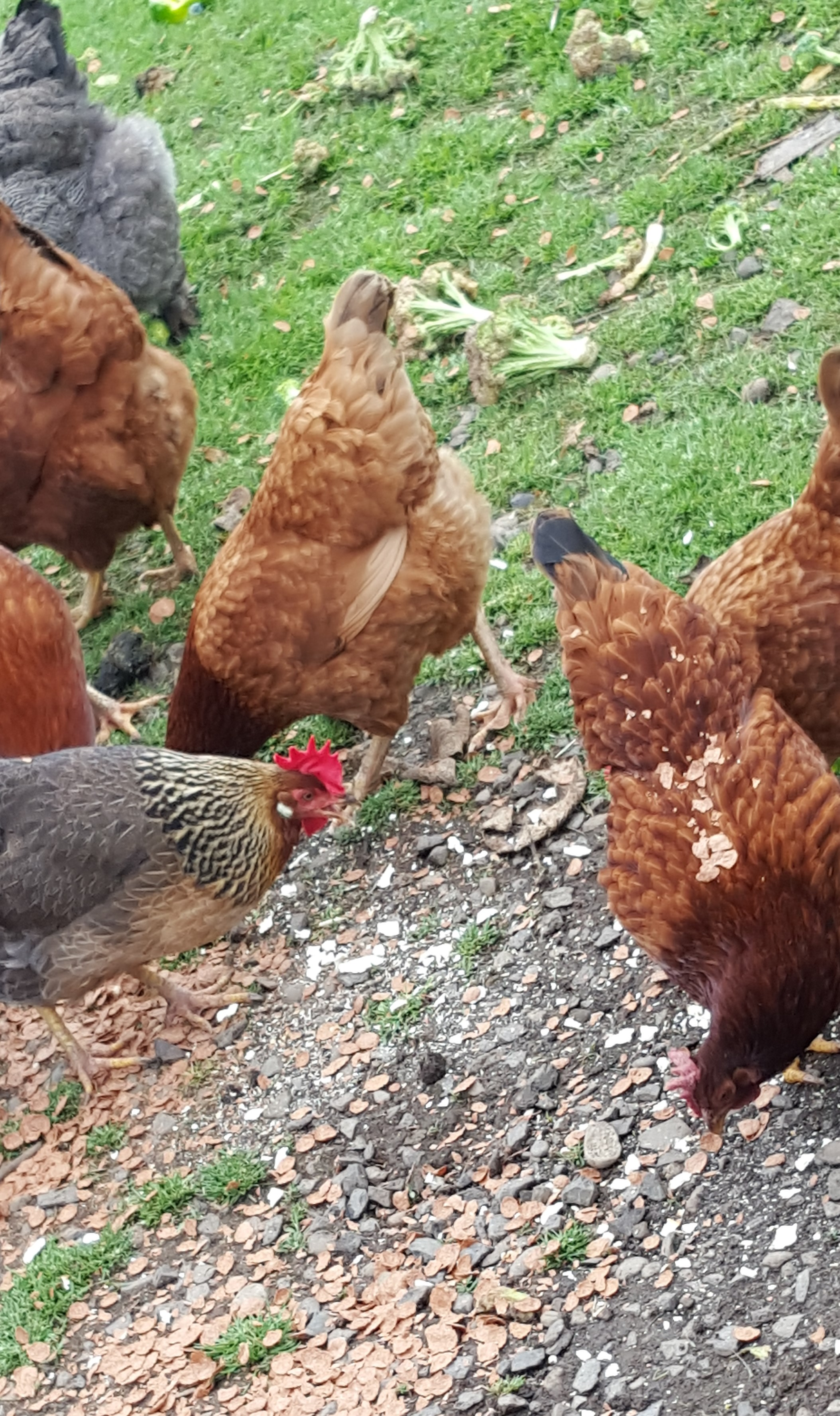 Chickens enjoying stale cereal, mushy peppers, and wilted broccoli